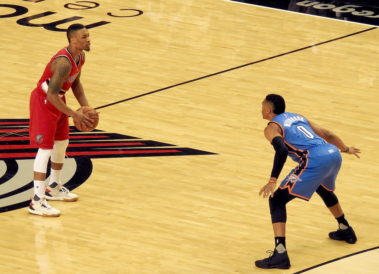 Damian Lillard of the Portland Trail Blazers and Russell Westbrook of the Oklahoma City Thunder